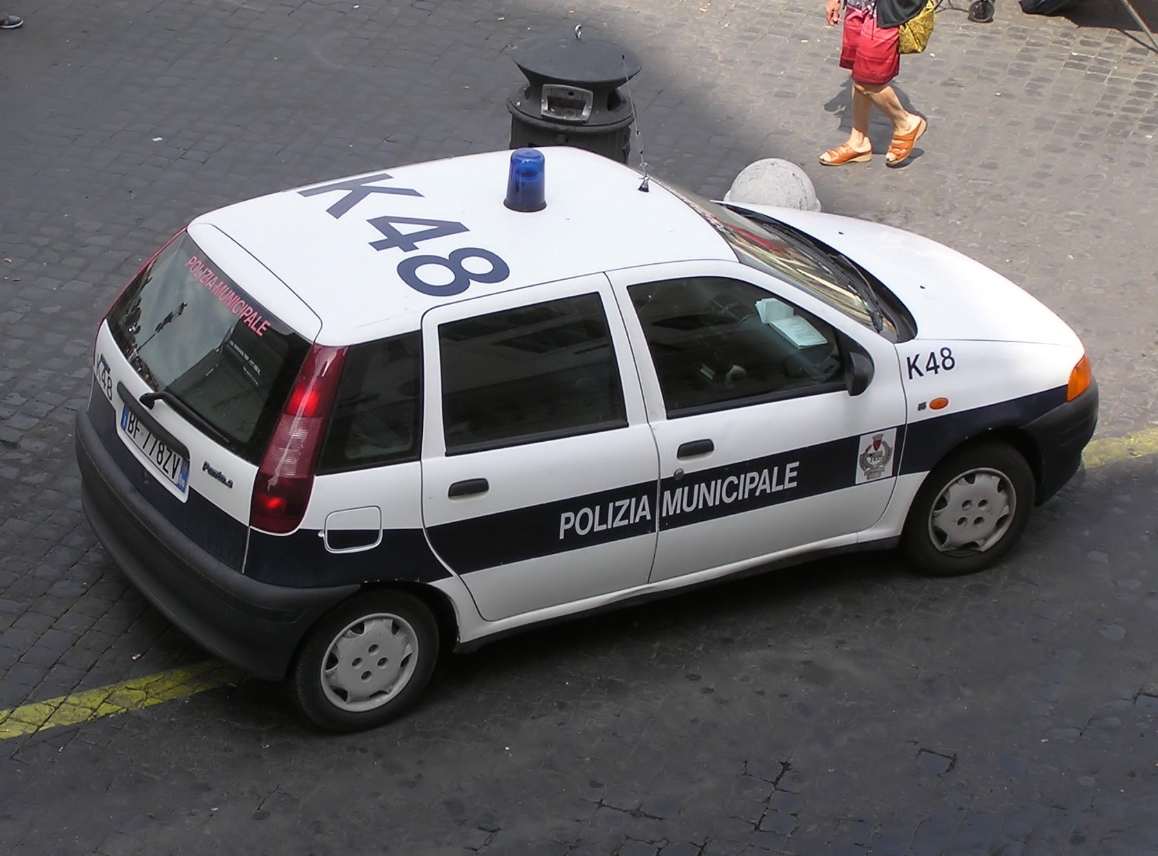 Municipal Police (Polizia Municipale) car in Rome.